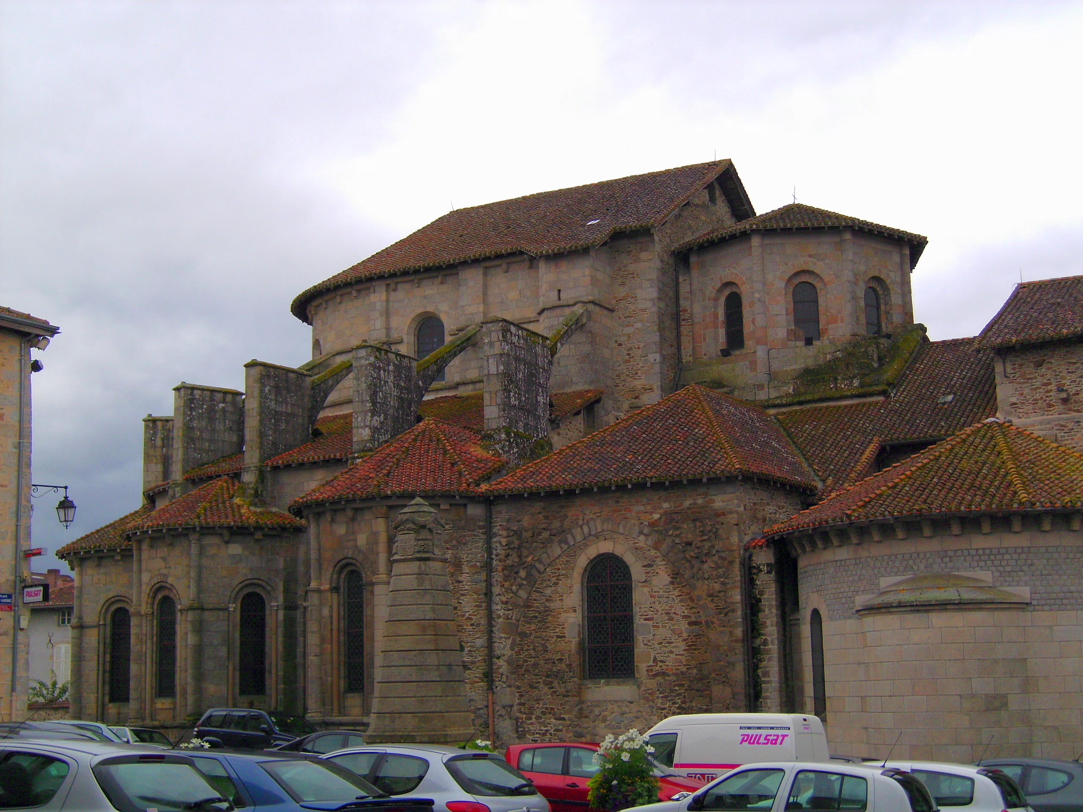 Saint-Léonard-de-Noblat church exterior, Haute-Vienne, Limousin, France